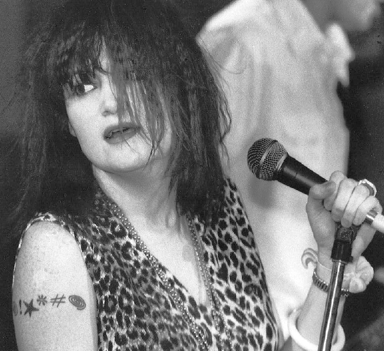 Exene Cervenka (born Christine Cervenka February 1, 1956) performing with X at the at The Chestnut Cabaret in Philadelphia.